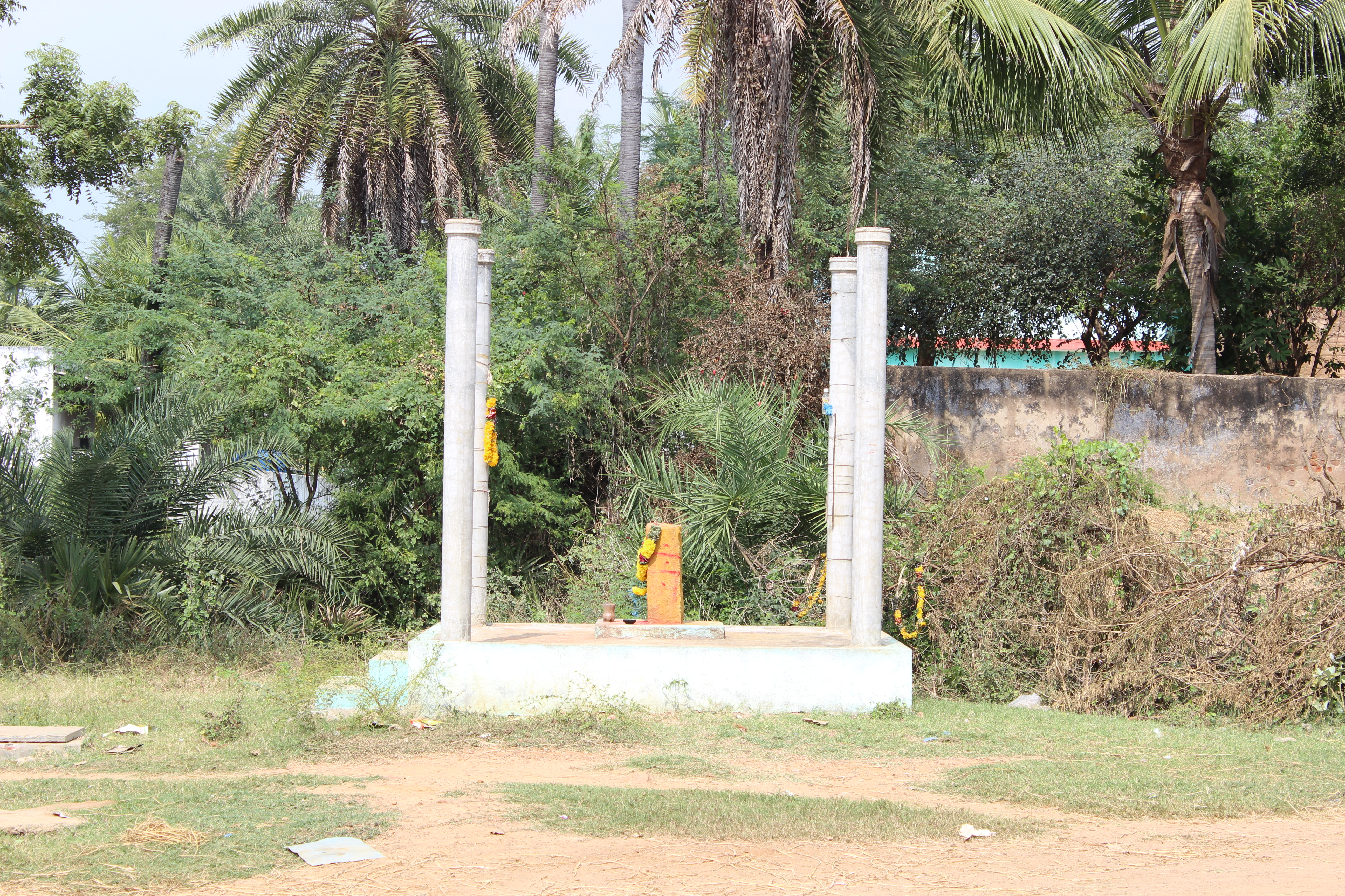 dagadarti temples